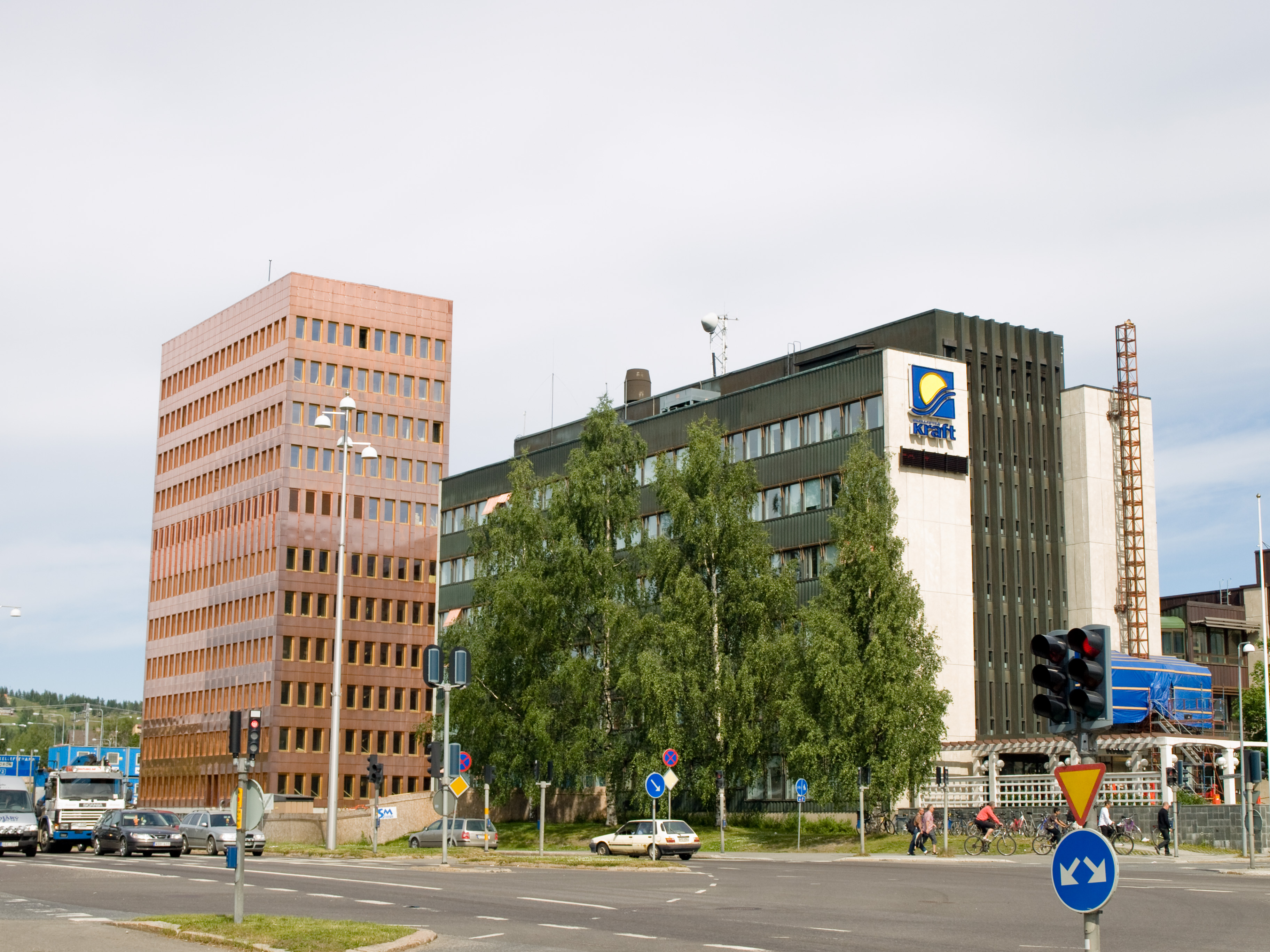 The Skellefteå Kraft building in Skellefteå, Sweden.